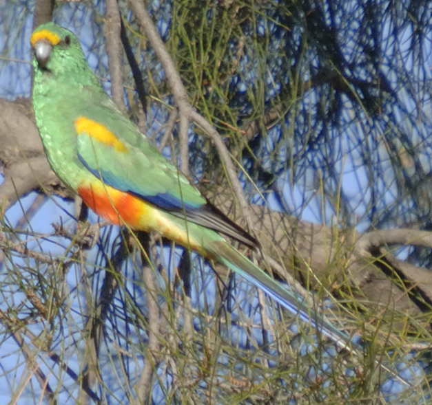 Mulga Parrot, (Psephotus varius), also known as the Many-coloured Parrot taken on the track from Cobar to Louth NSW, Australia 6th April 2006 © Elizabeth Padilla 2006